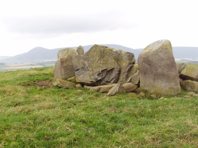 Ardlair Stone Circle View over the recumbent and flanker stones of Ardlair Stone Circle with Tap o'Noth in background